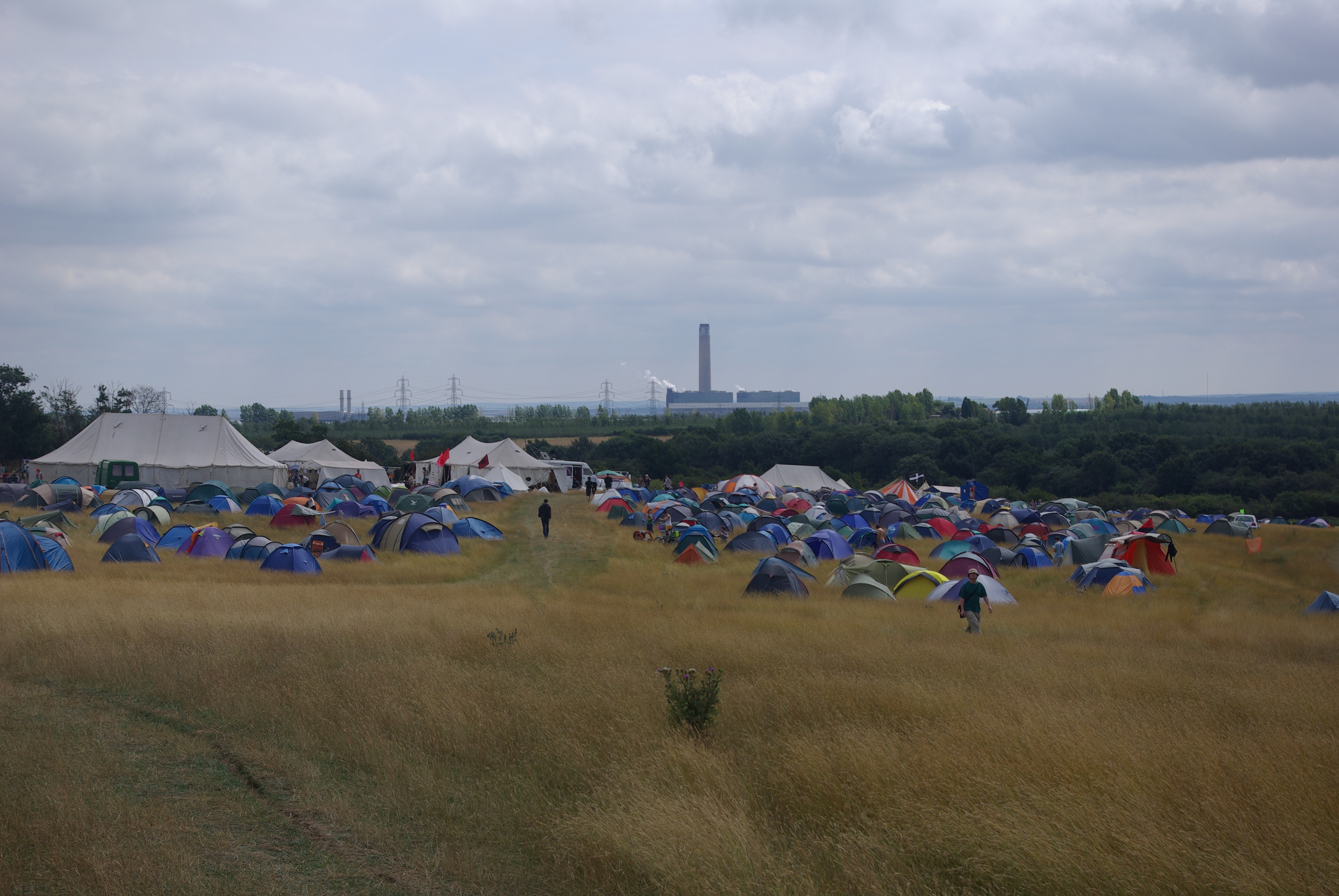 View of the 2008 climate camp in Kent, looking towards Kingsnorth power station.